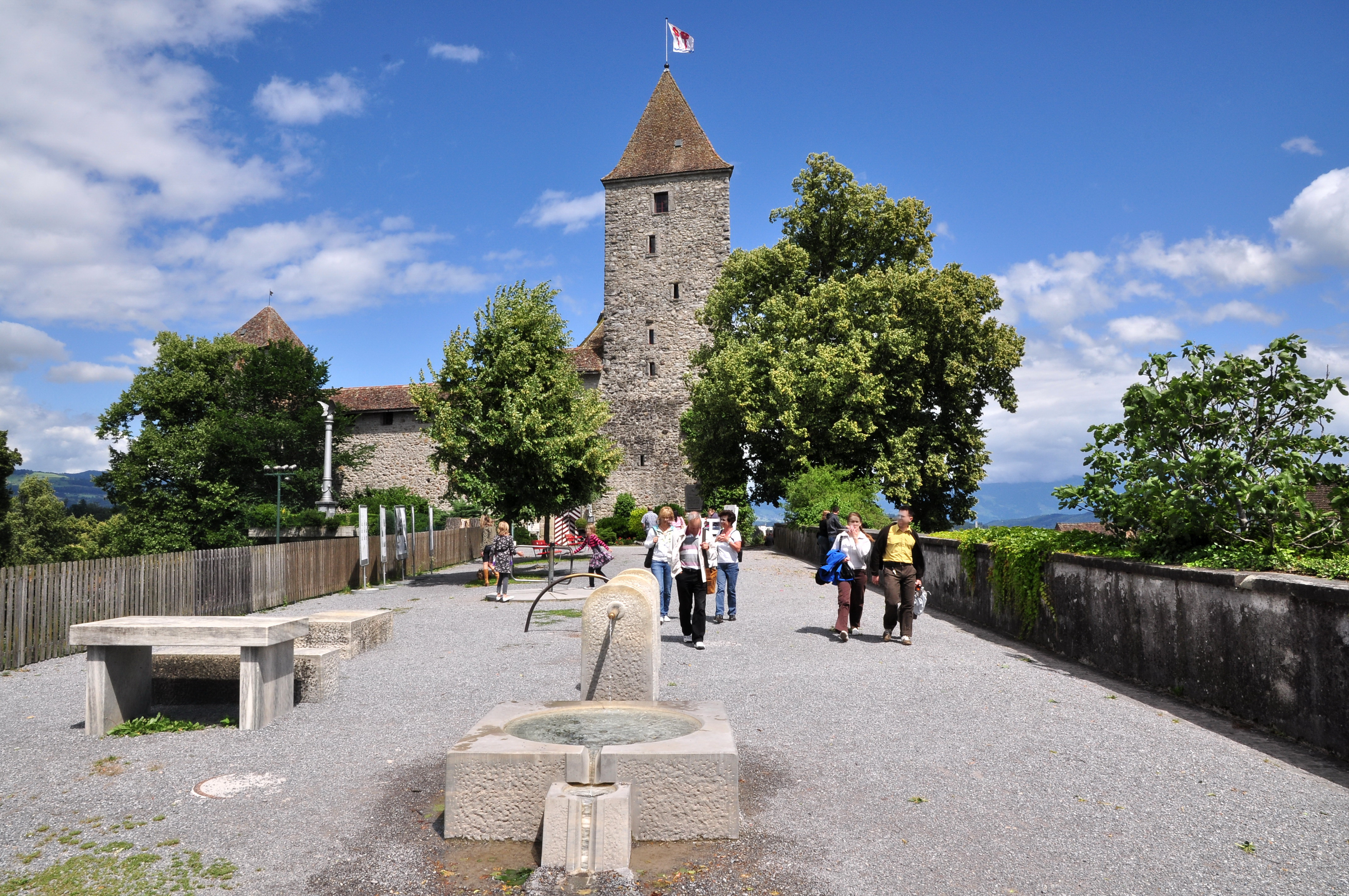 Schloss (castle) in Rapperswil (Switzerland) as seen from Lindenhof